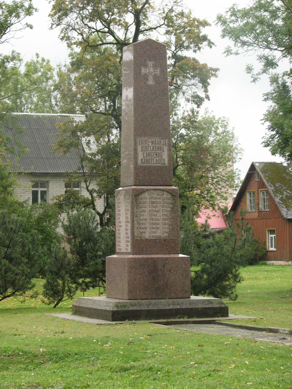 Statue of Estonian War of Independence in Väike-Maarja, Estonia